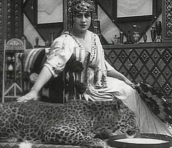 Film stills from Cabiria (1914)